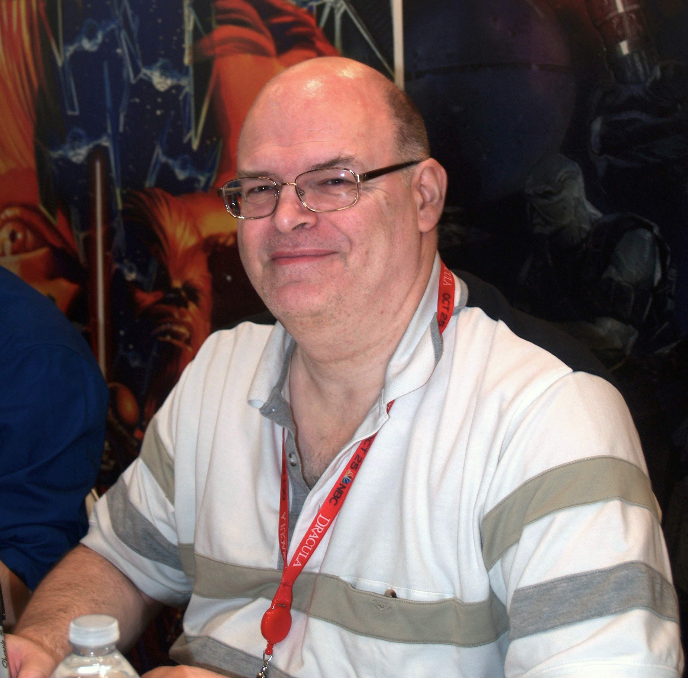 Comic book artist Robin Riggs in Artists Alley on Sunday, October 13, 2013 at the Jacob K. Javits Convention Center in Manhattan, Day 4 of the 2013 New York Comic Con. This photo was created by Luigi Novi. It is not in the public domain, and use of this file outside of the licensing terms is a copyright violation.